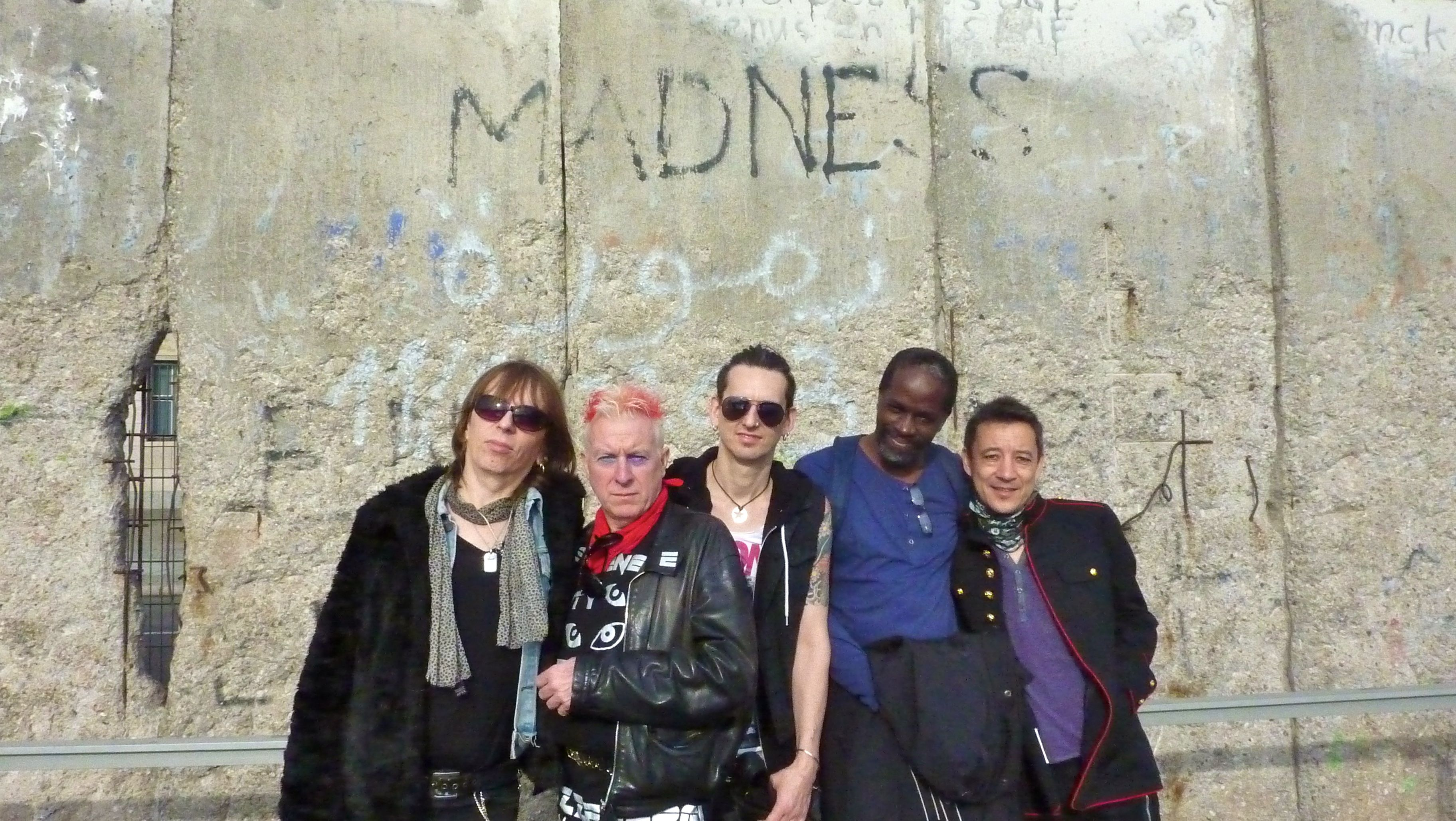 Spizzenergi at Berlin Wall 26.10.13